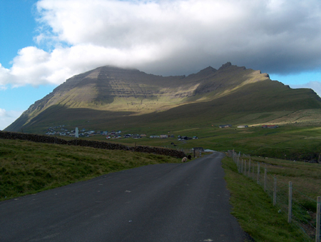 Picture of the Villingadalsfjall mountain on the Faroe Islands.